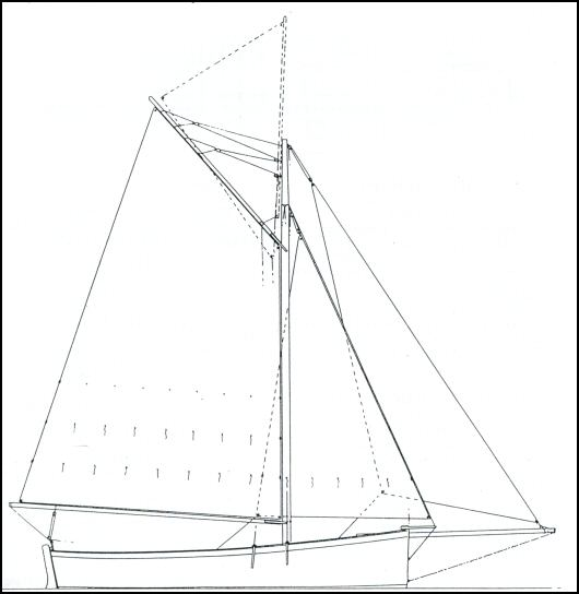 Sail plan of yacht designed by Percy Dalton